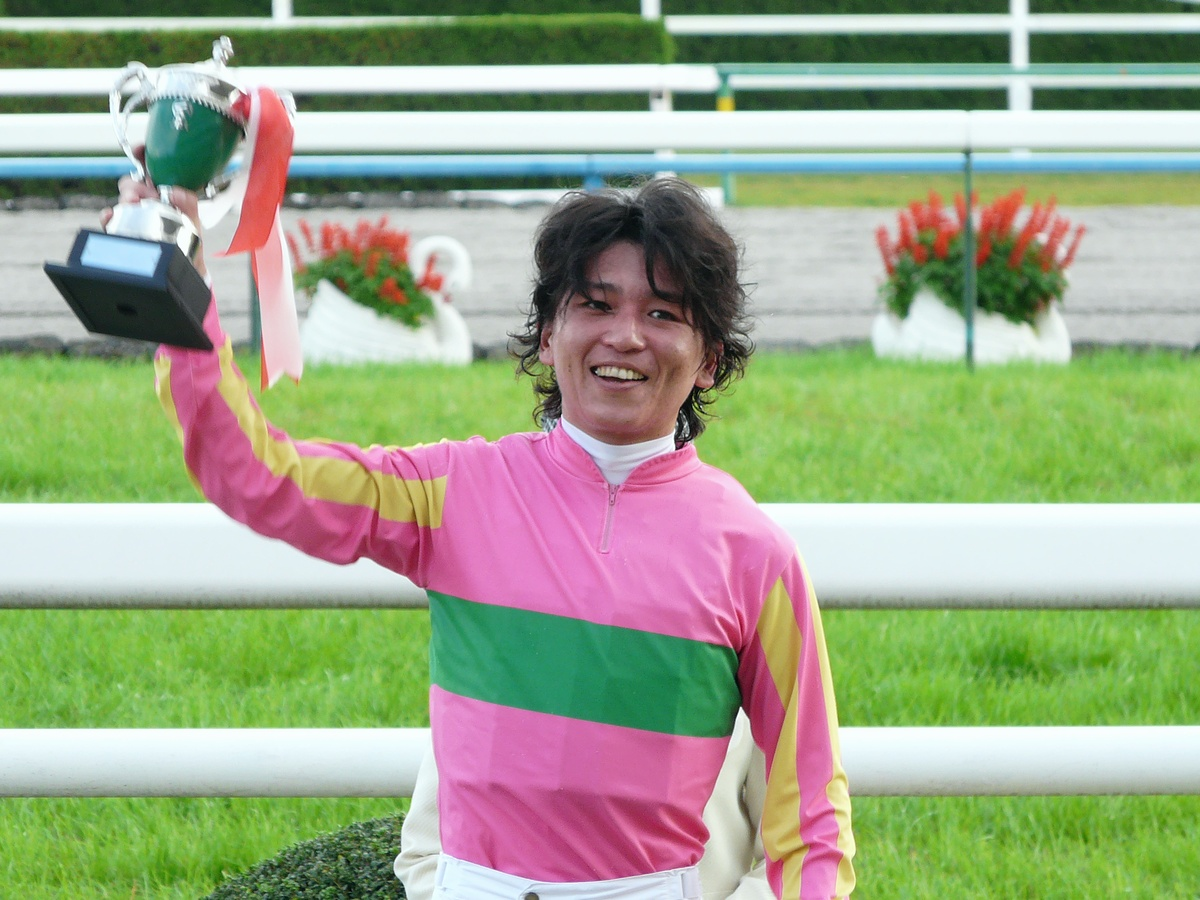 Yuzo-Shirahama20111112